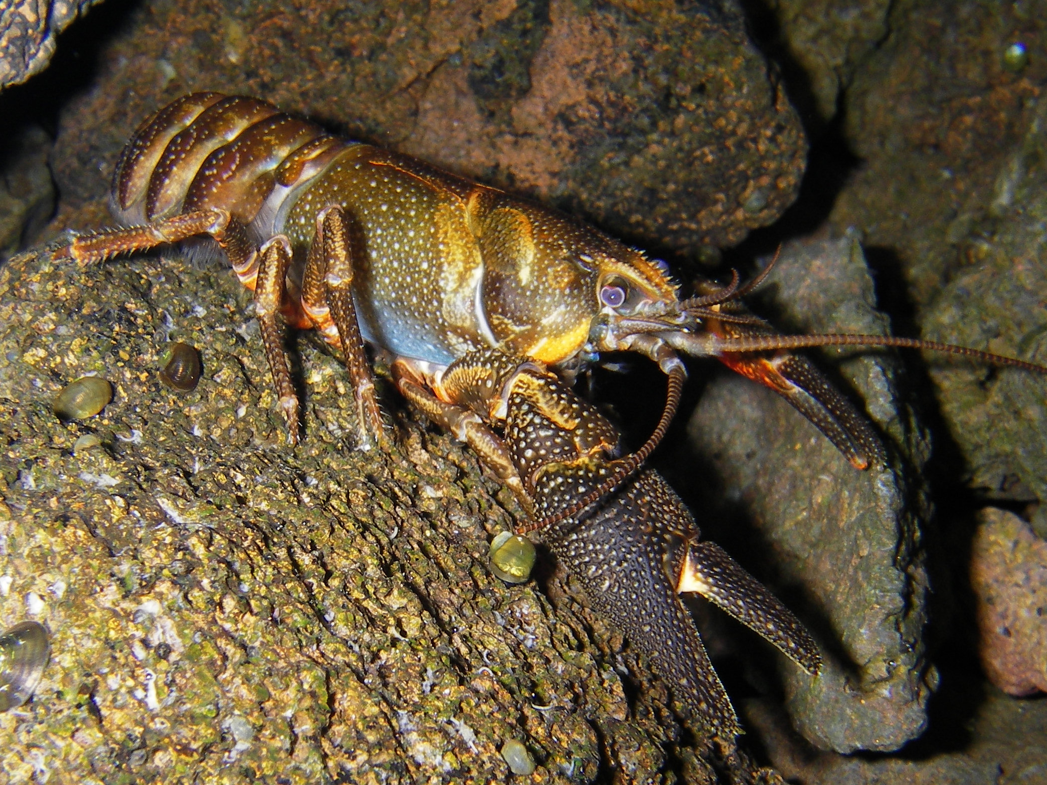 Shasta crayfish--credit Koen G. H. Breedveld, Spring Rivers Ecological Sciences LLC